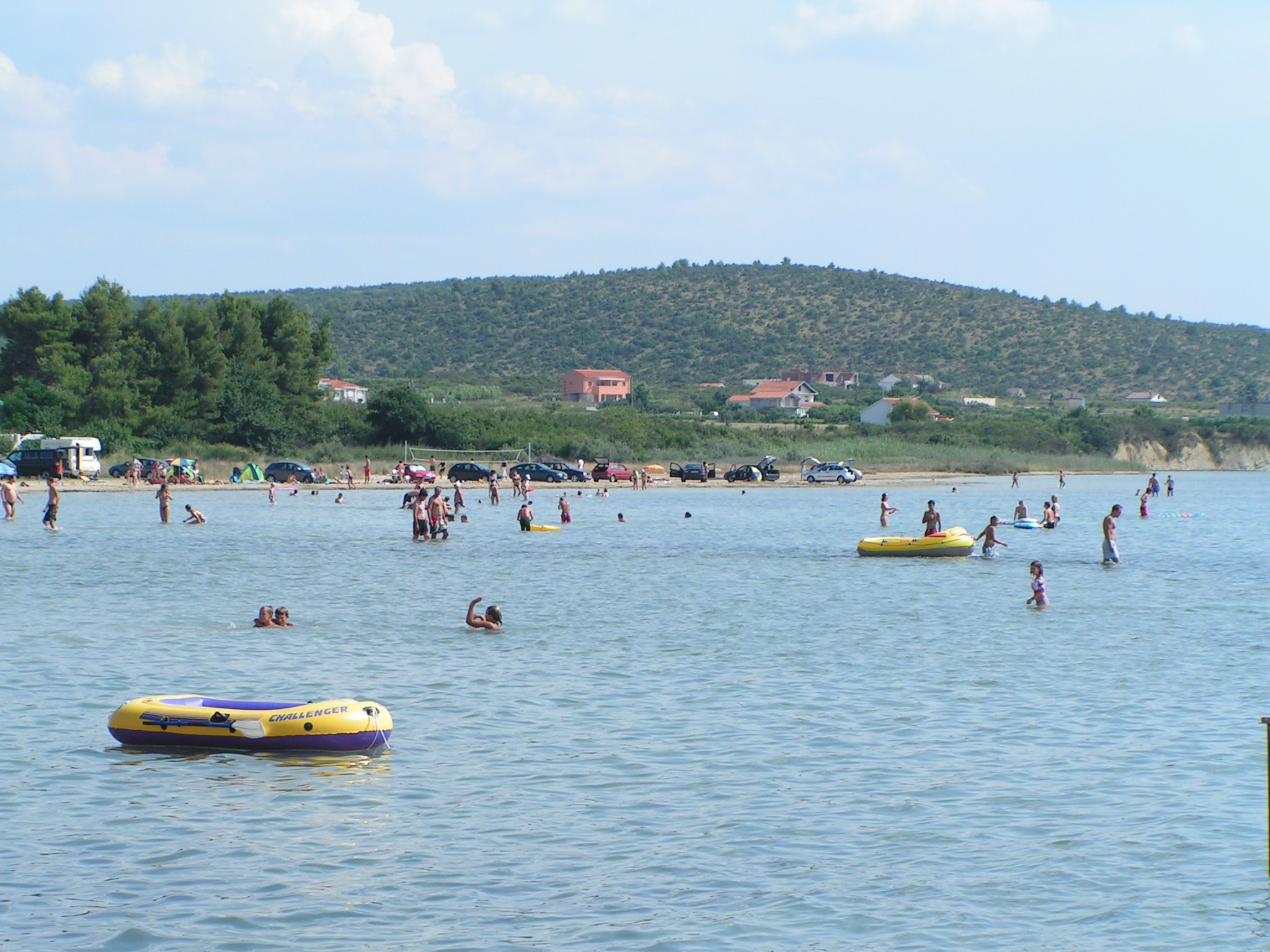 Ljubač beach.